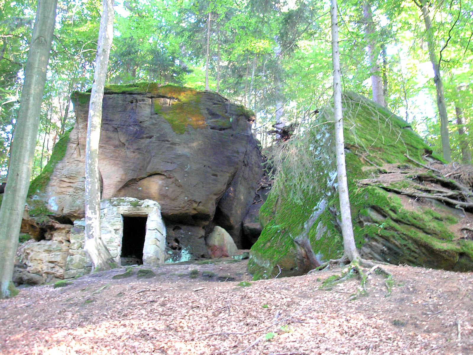 Hohler Stein( Hollow stone) near Reutersbrunn (Ebern, Landkreis Haßberge, Lower Franconia, Germany)